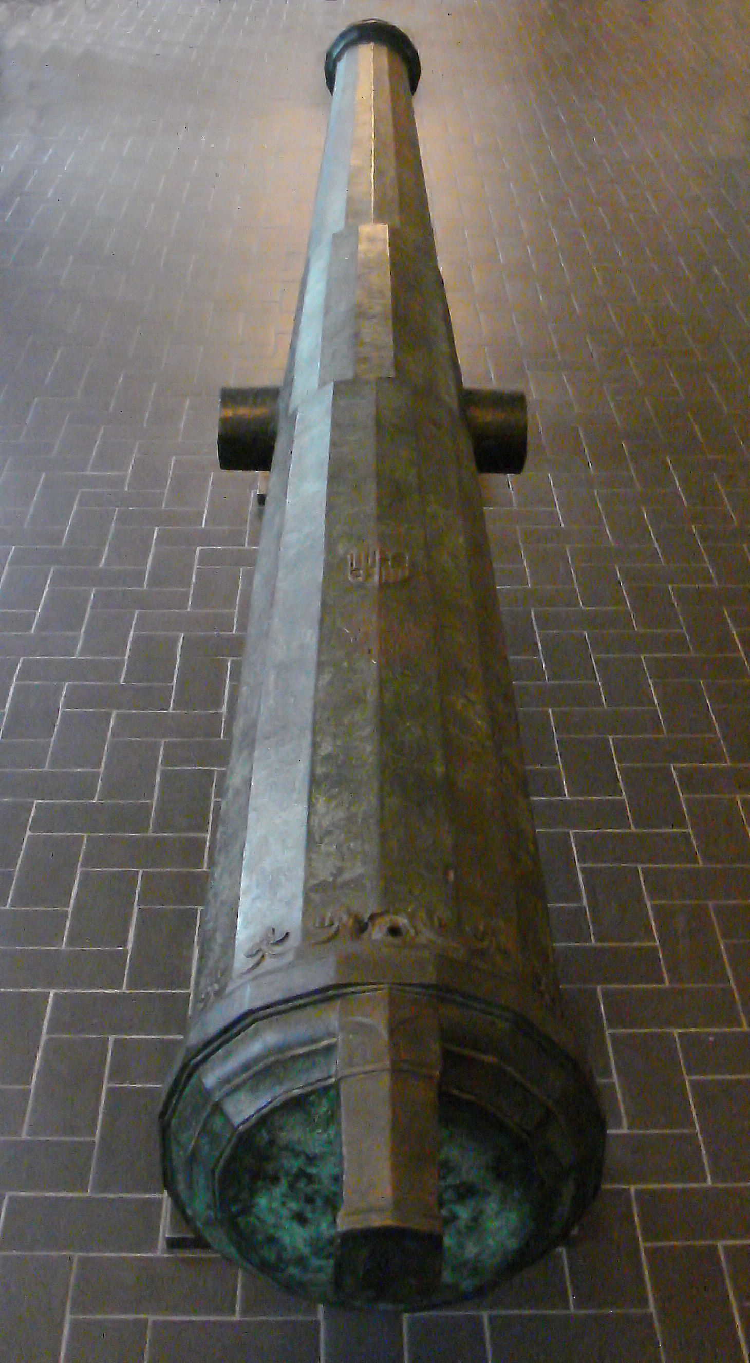 Grand_culverin_of_the_Hospitallers_1500_1510_French_work_165mm_540cm_3343kg_iron_ball_15kg_Emery_Amboise_Abdul_Aziz_to_NIII_1862_alt.